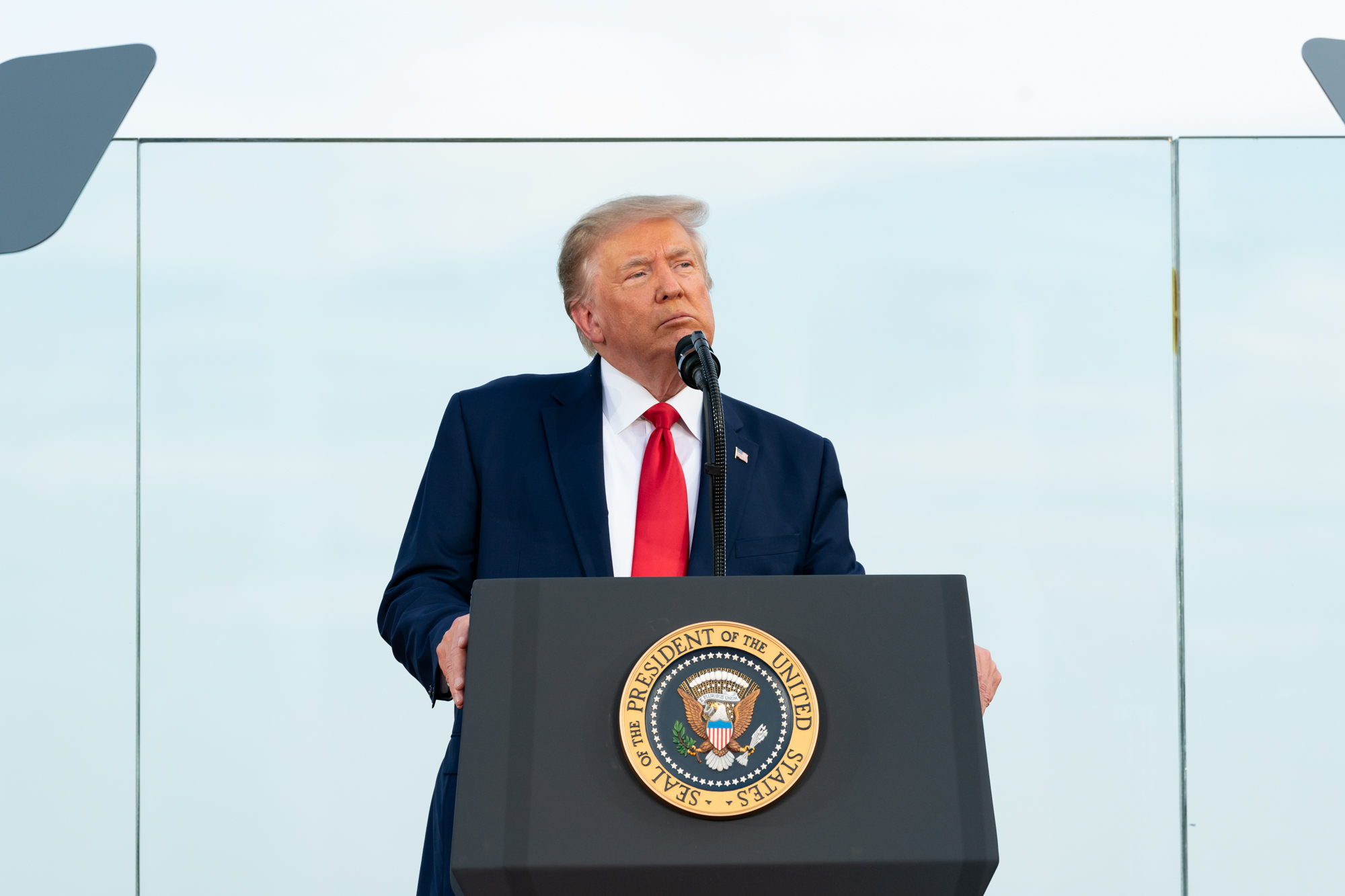 President Donald J. Trump delivers remarks during the 2020 Salute to America event Saturday, July 4, 2020, on the South Lawn of the White House. (Official White House Photo by Andrea Hanks)